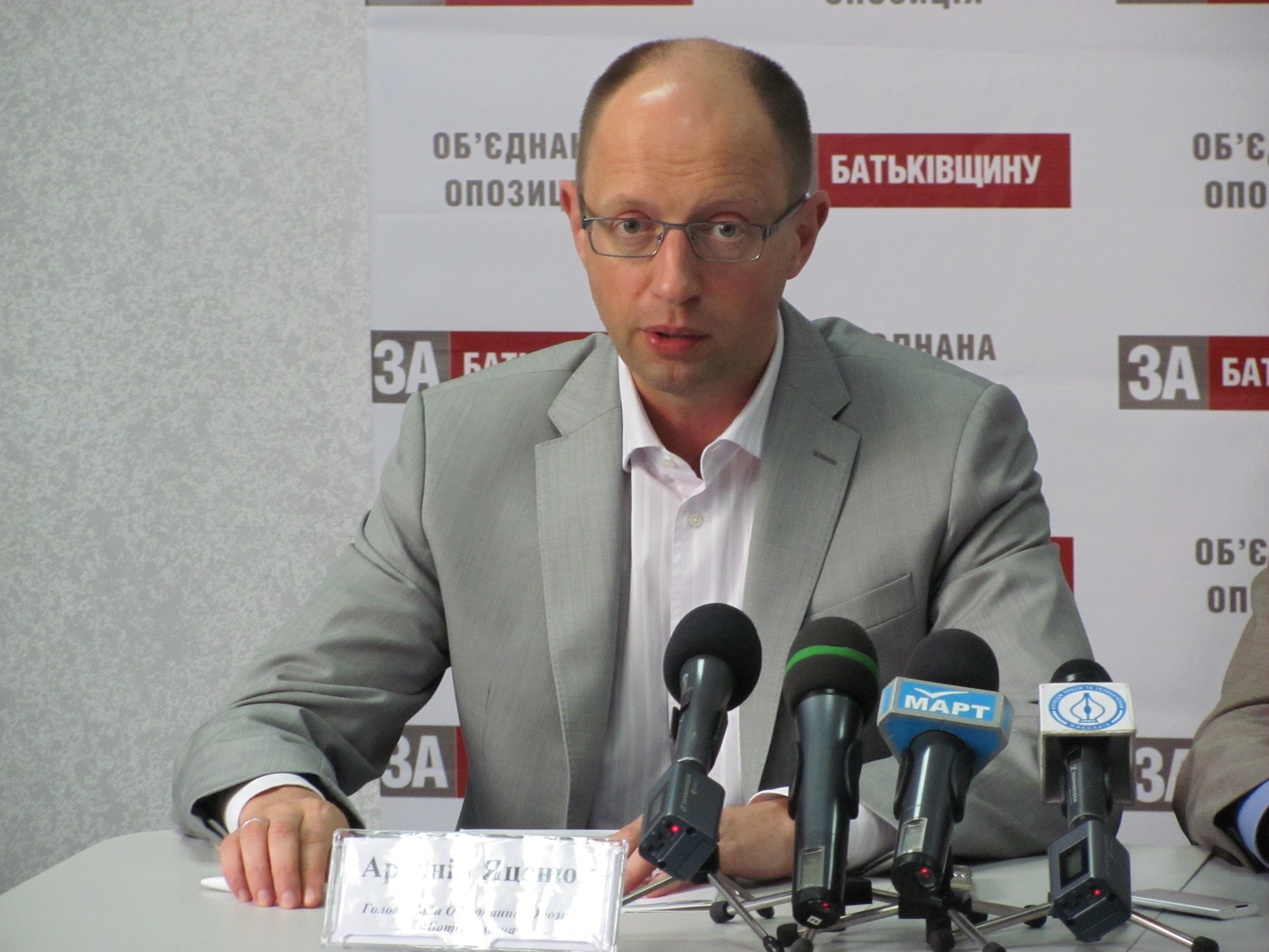 Arseniy Yatsenyuk at his press conference in Mykolaiv.